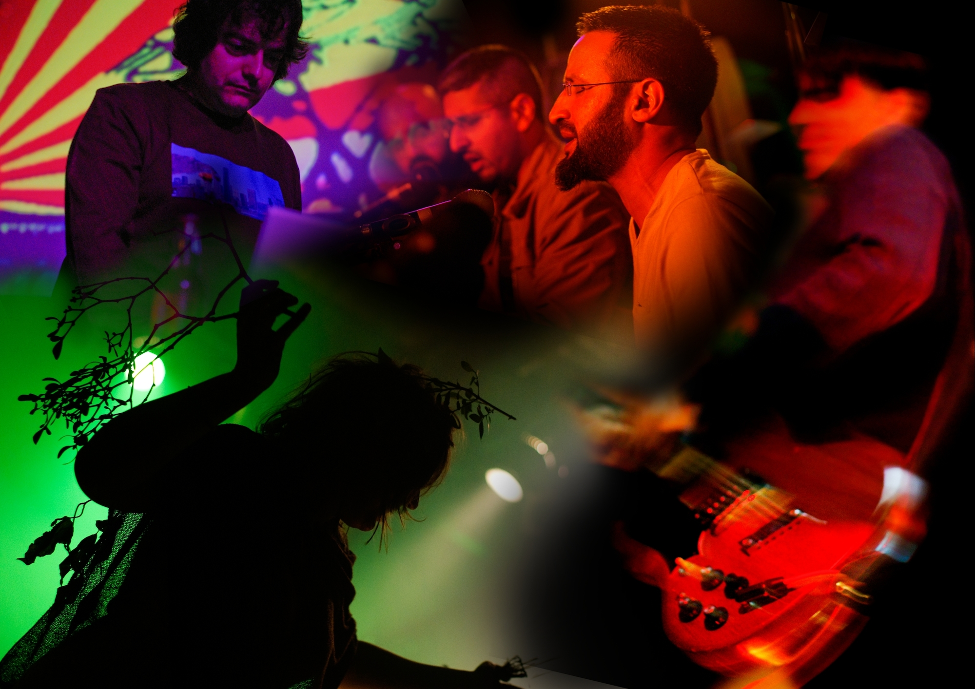 Compostite image compiled by Matt Murtagh from photos he took at the second Project X Presents event at the Rainbow Warehouse.